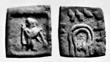 Dyonisos_Indo_Greek_coin